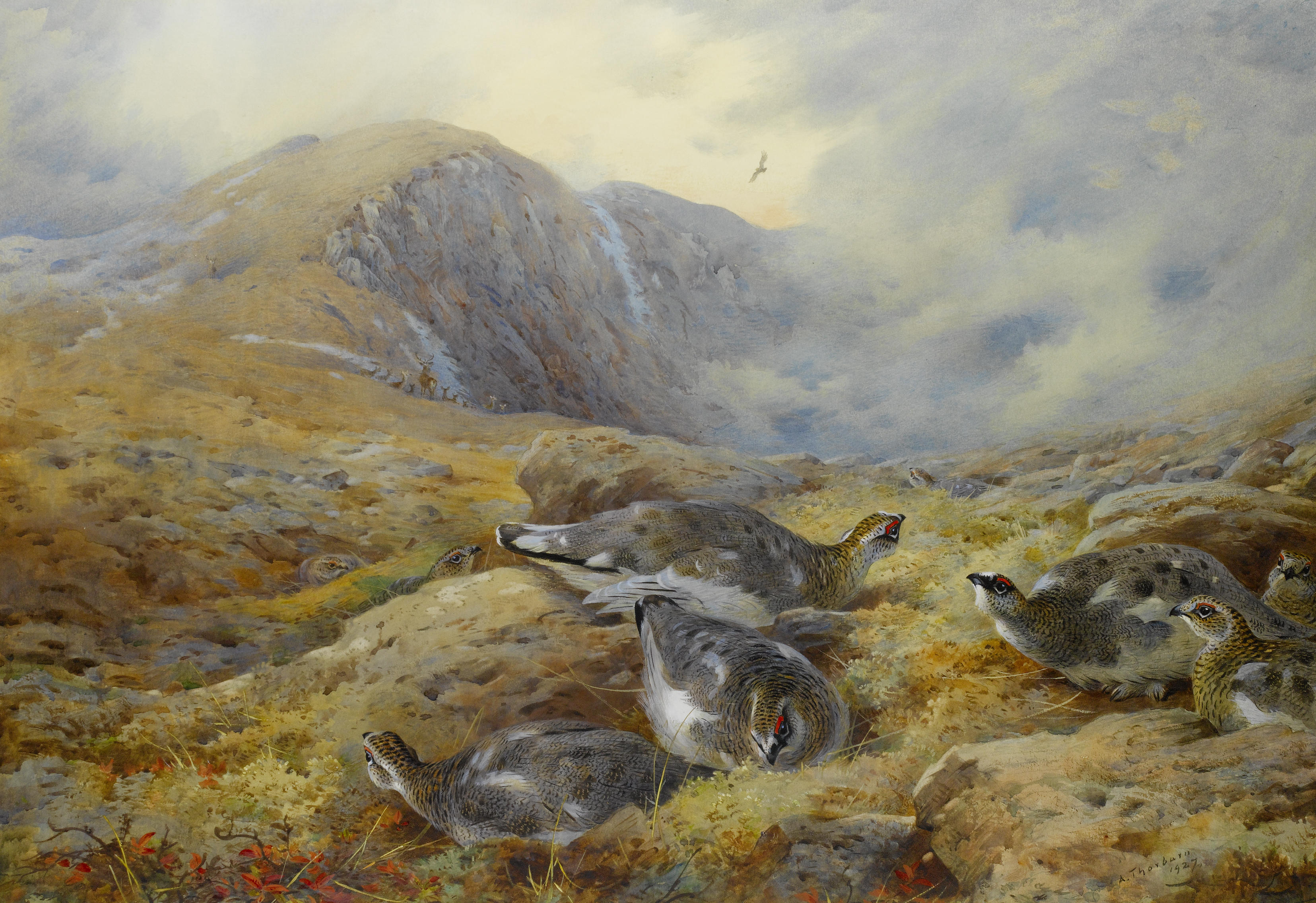 Danger aloft – Ptarmigan. Signed and dated A.Thorburn/1927. Watercolour and bodycolour, 52.5 x 75 cm